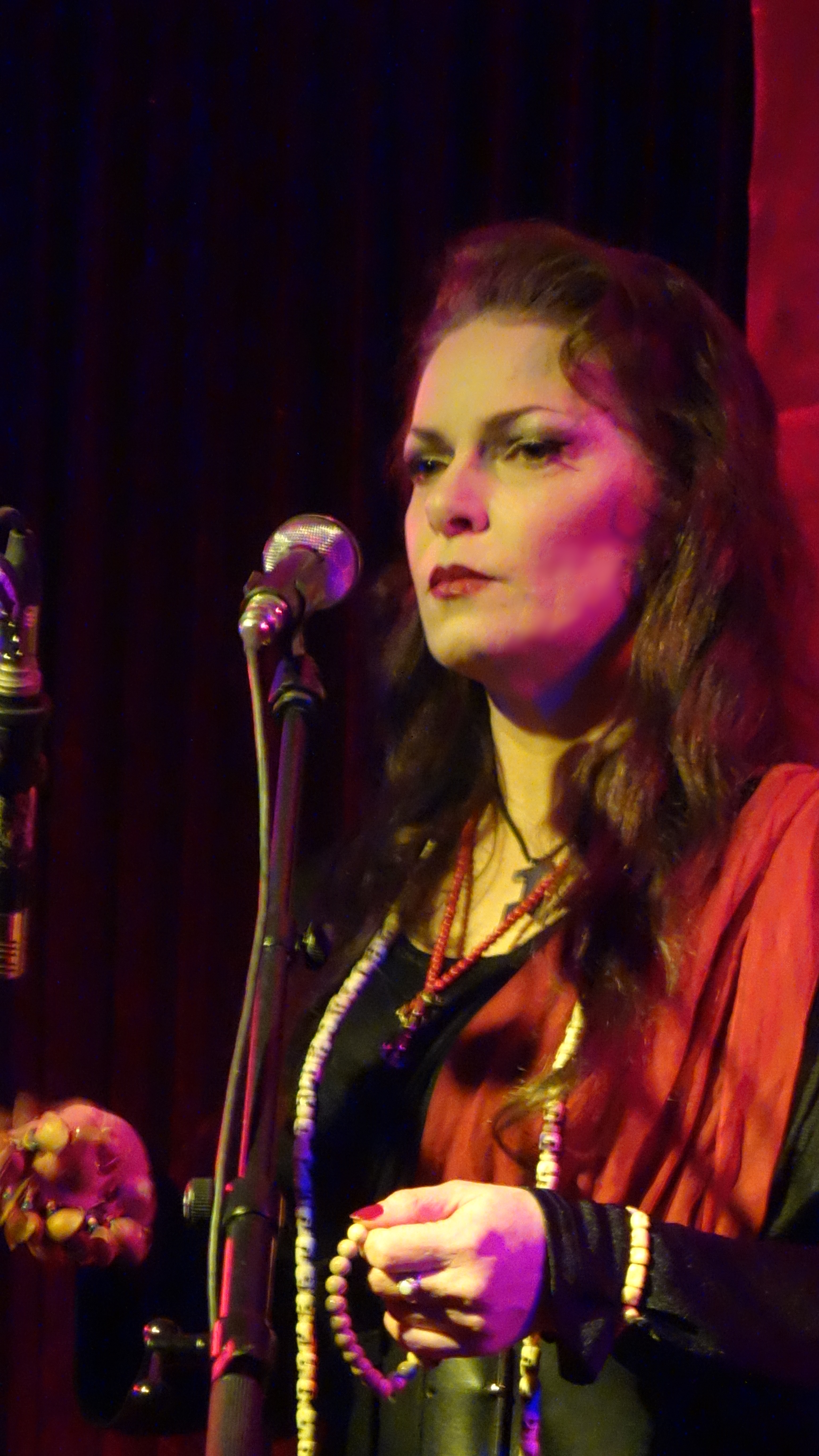 Zeena Schreck performing at Kantine am Berghain Berlin, Feb 28, 2016. Full concert online at this link